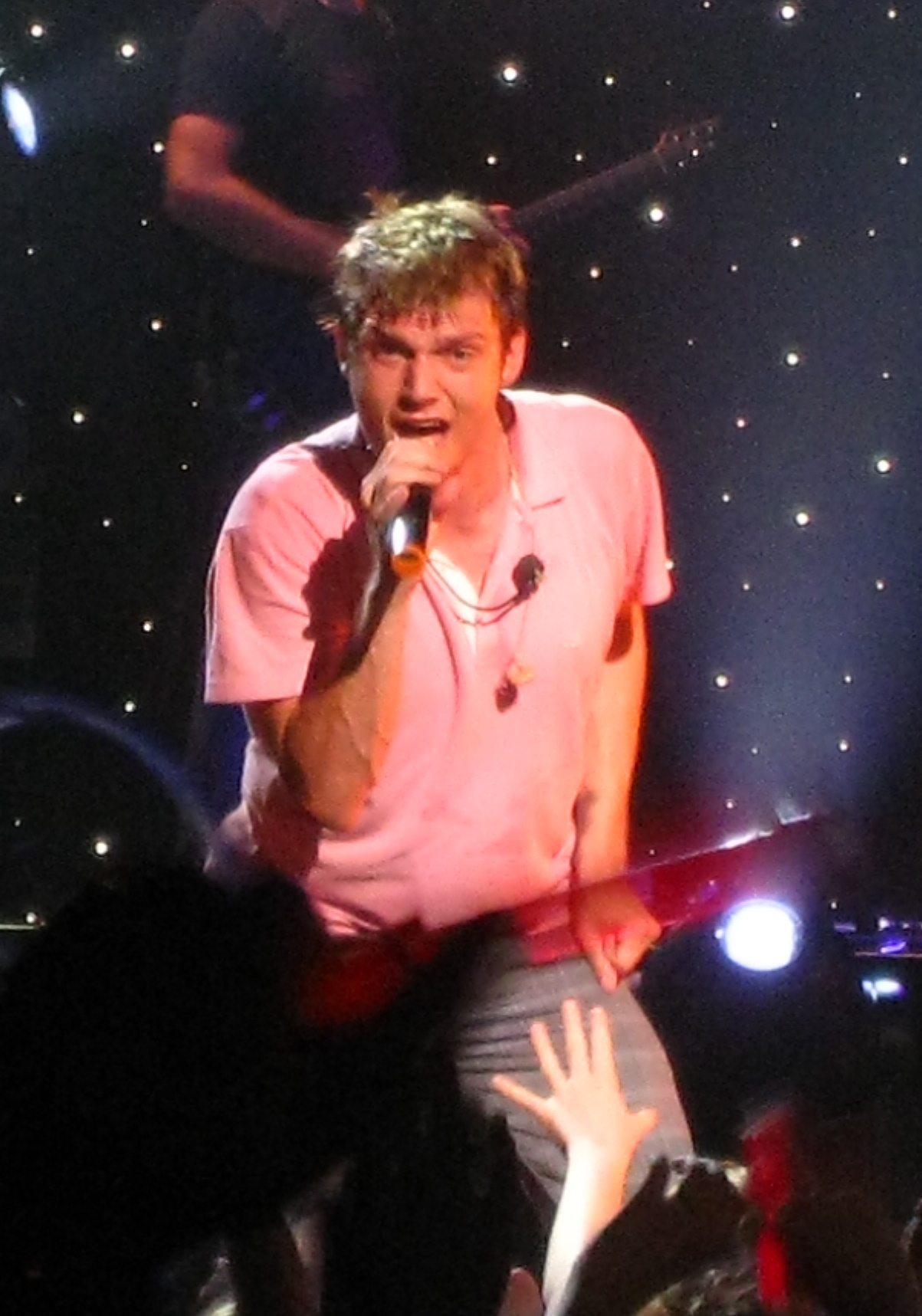 Nick Carter singing beside the twinkling stage. Taken at the Backstreet Boys (BSB) 'Unbreakable Tour' Concert @ Bell Centre, Montreal on 5th August, 2008. Backstreet Boys is a Grammy nominated pop group that rose to popularity in the late 90's. As per Wikipedia, "They have had 13 Top 40 hits on the Billboard Hot 100 and have approximately sold 100 million records, the best selling boy band of all time, and World's Biggest Money Makers (Concerts and Album Sales) 1997-2005: #1 ($533.1 million). Two of their albums Millennium and Backstreet Boys are listed #13 and #27 respectively,[4] in the list of 150 Best Selling Albums.". Originally, the group consisted of five members - Nick Carter, Howie Dorough, Brian Littrell, Kevin Richardson, and AJ McLean.